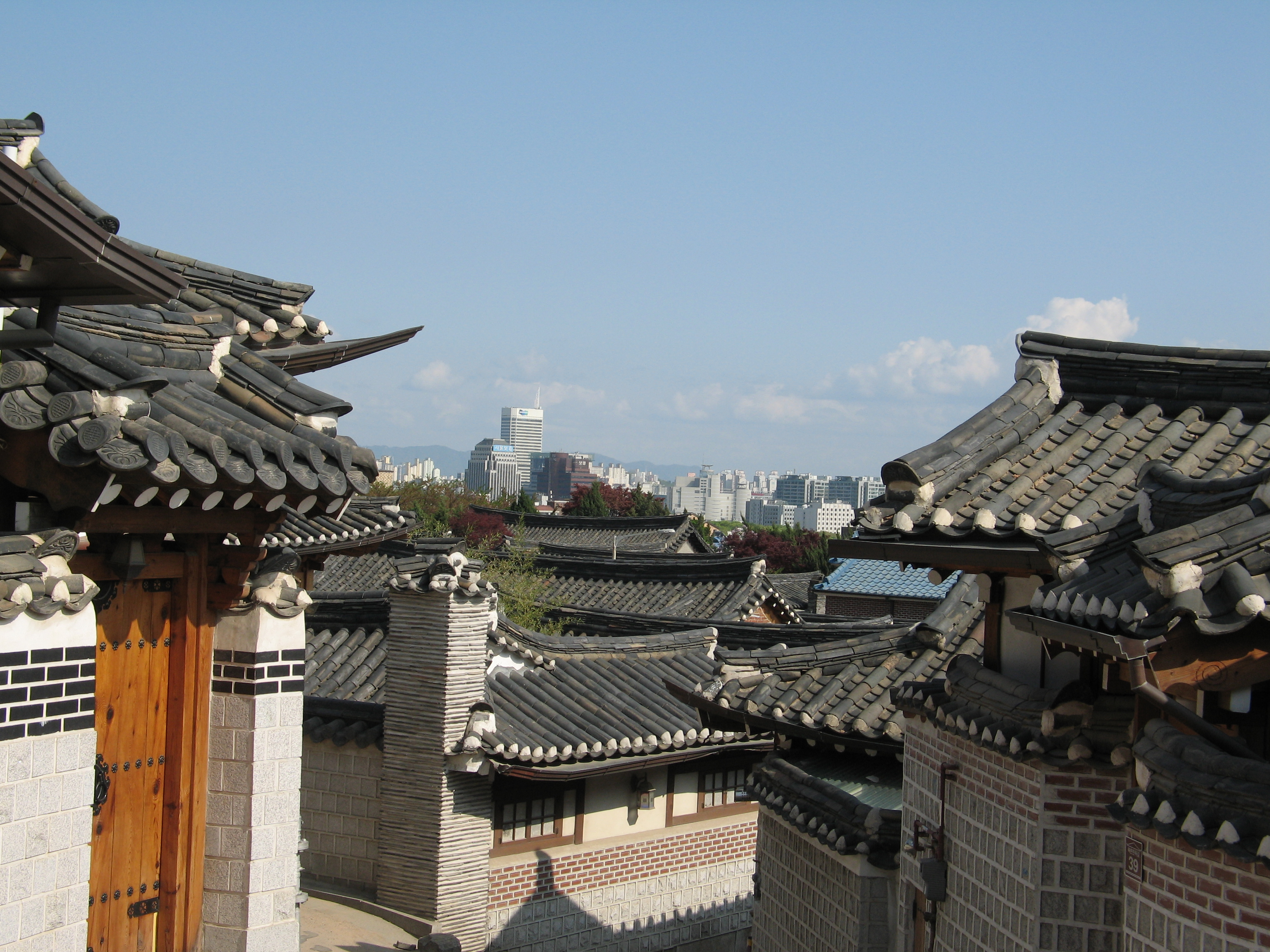 Bukchon Hanok Village in Jongno-gu, Seoul, South Korea